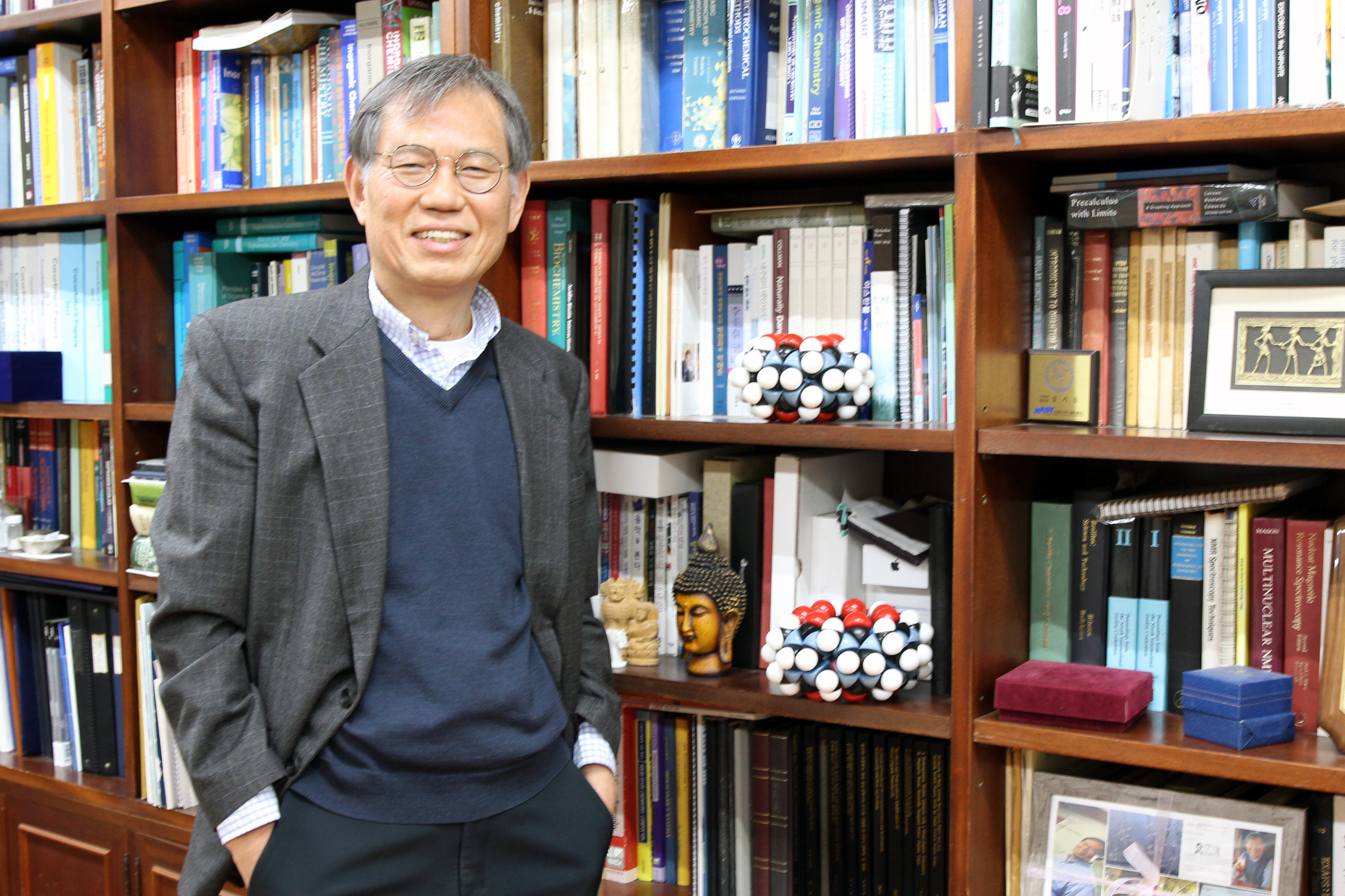 Chemistry professor Kim Kimoon 김기문 in his office in POSTECH.